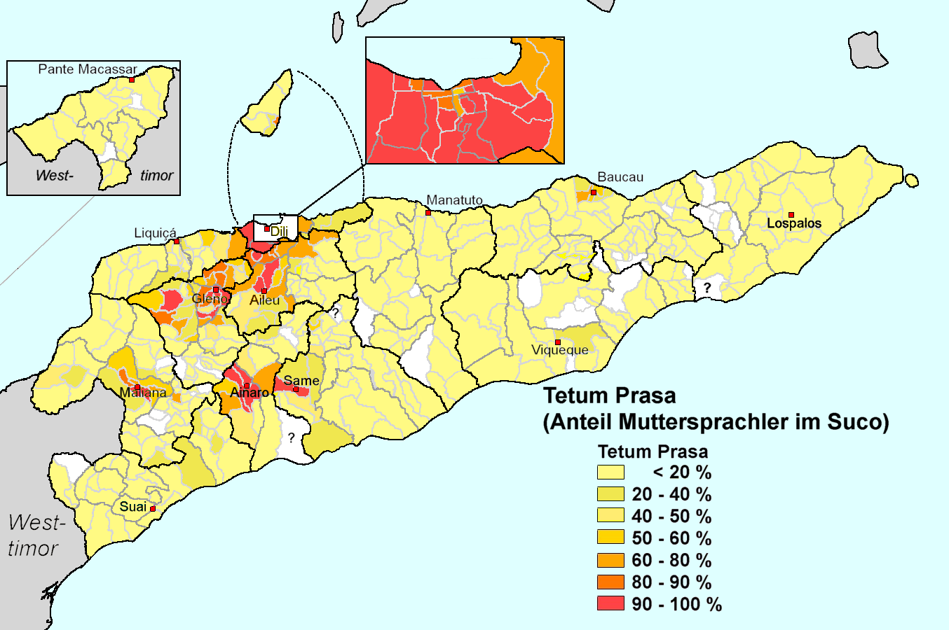 Percentage of people using Tetum Prasa as mother tongue in sucos of East Timor (Timor-Leste), according census 2010